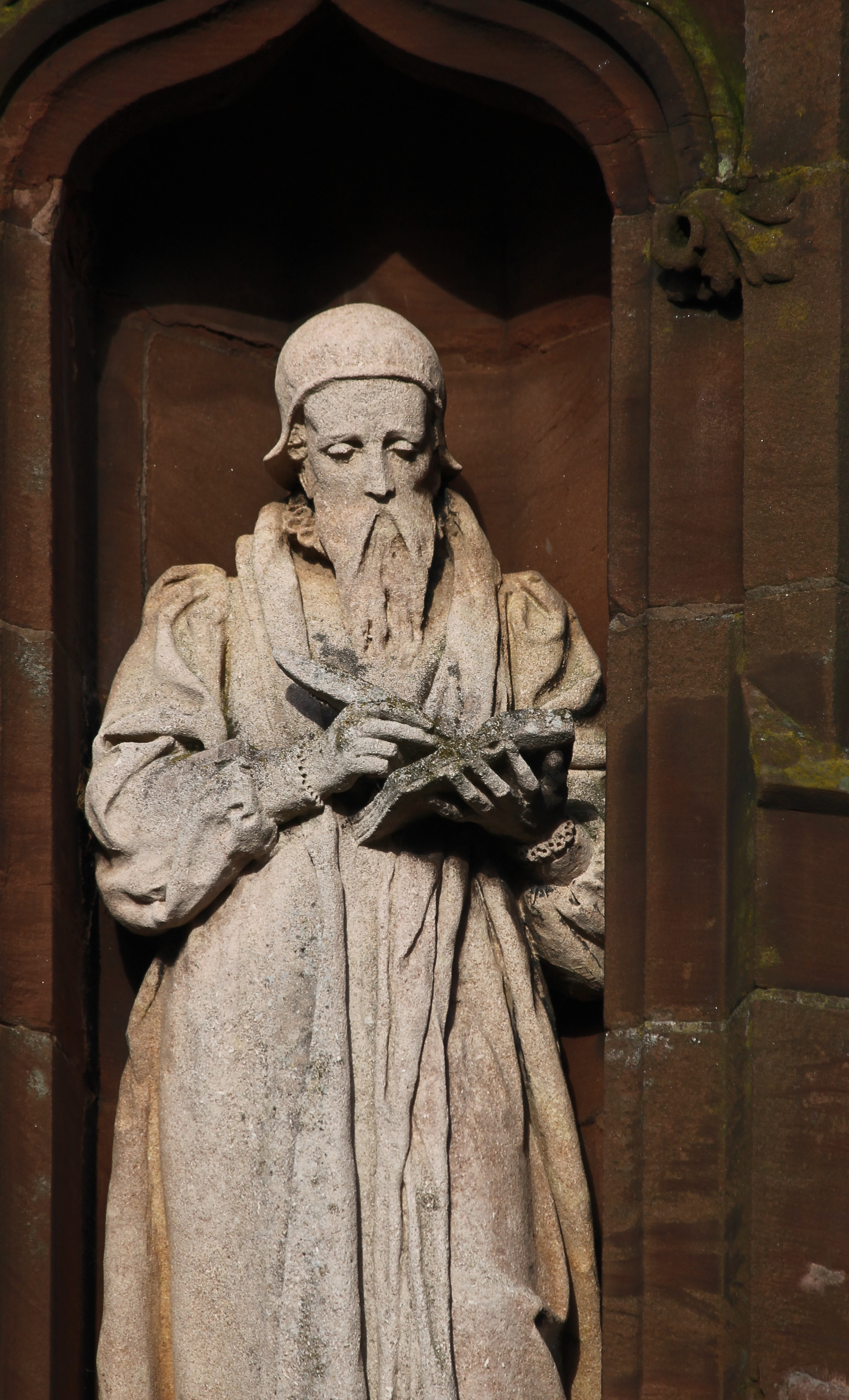 Sculpture of Dr John Davies, Mallwyd, on the Translators' Memorial, St Asaph. He is believed to have been the main editor and reviser of the 1620 edition of the Welsh translation of the Bible.